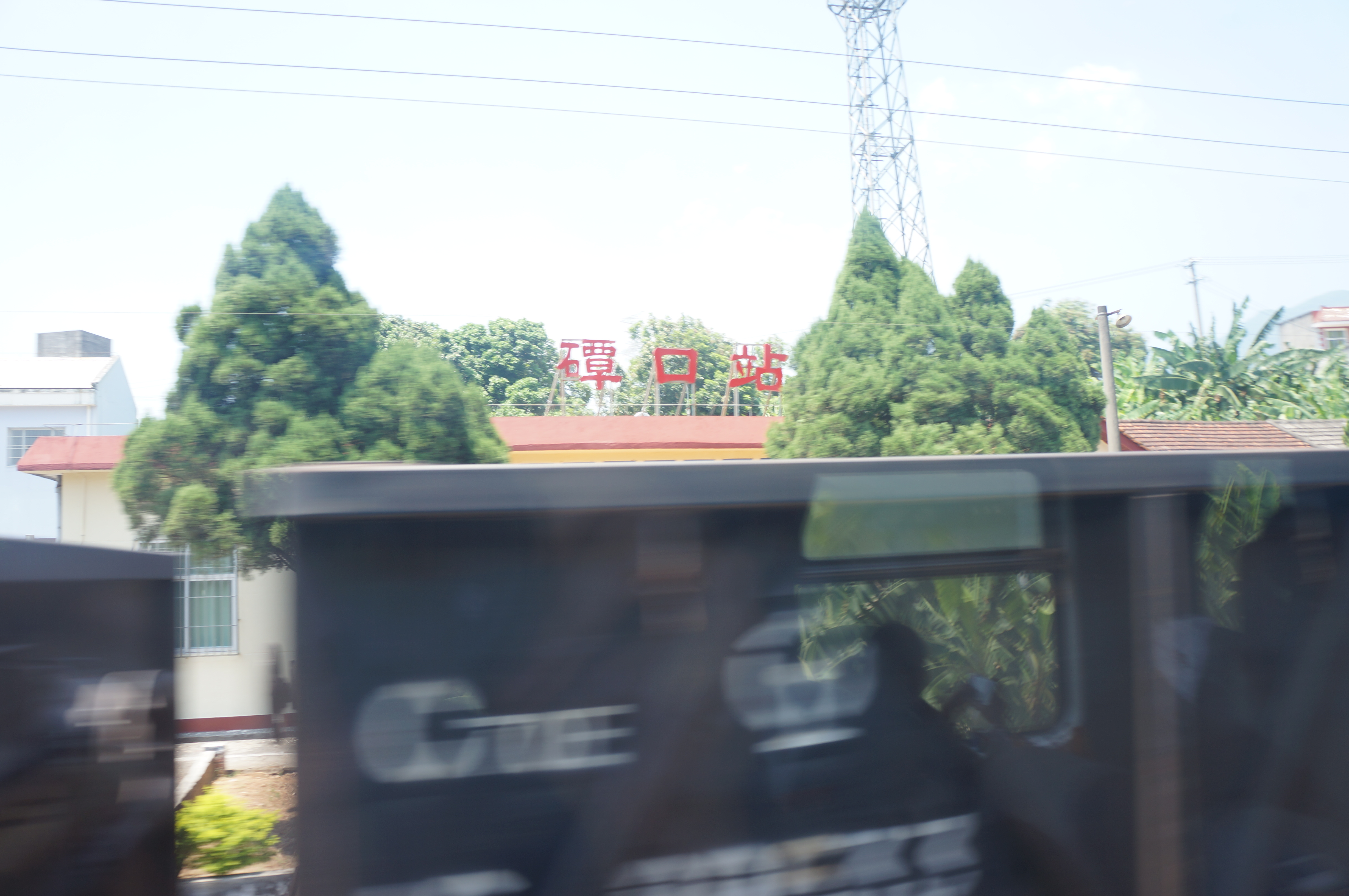 Tham Kho Station. Next Station, Soa Kian